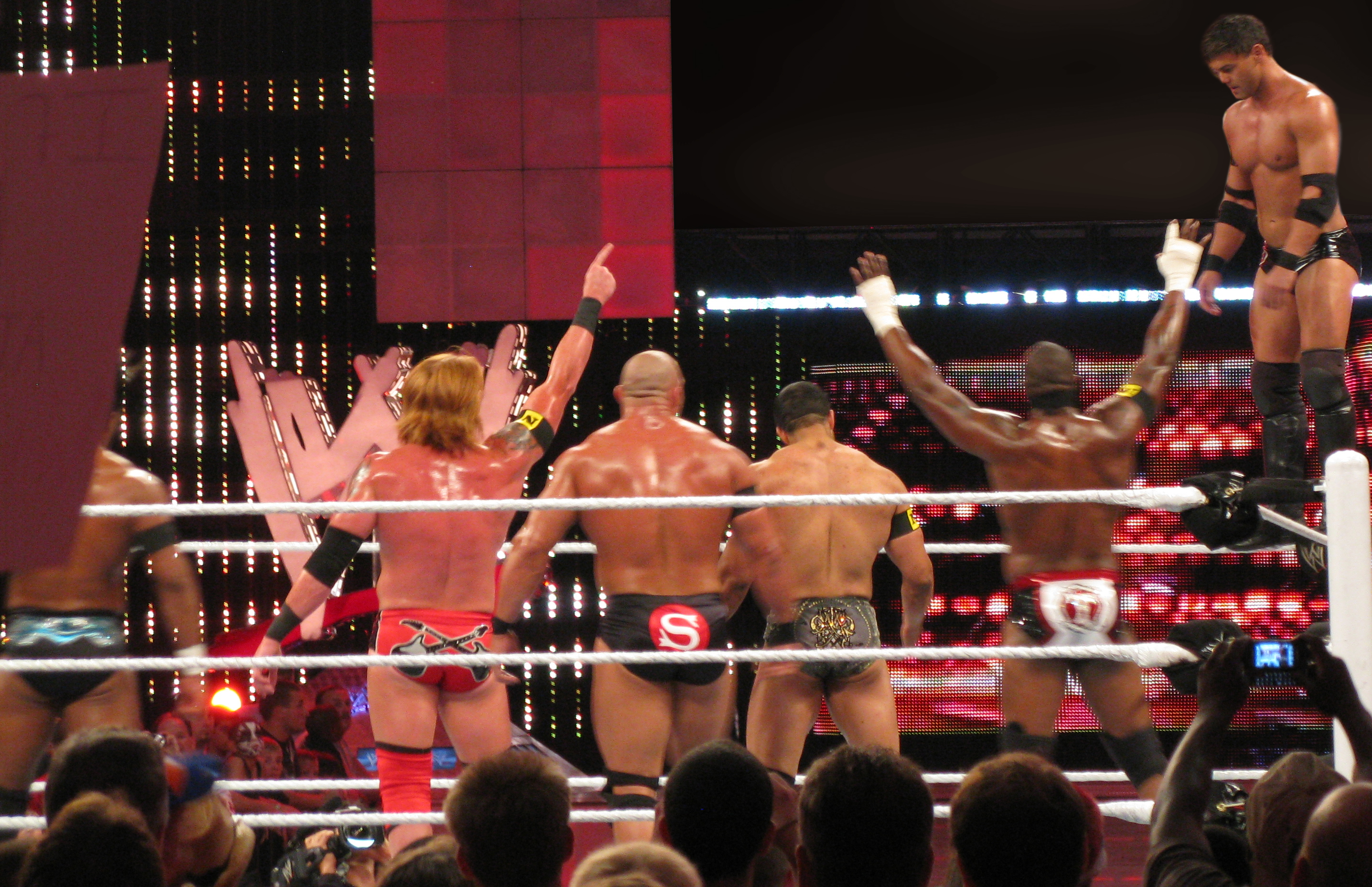 Justin Gabriel performing a 450 splash on Ricky Steamboat